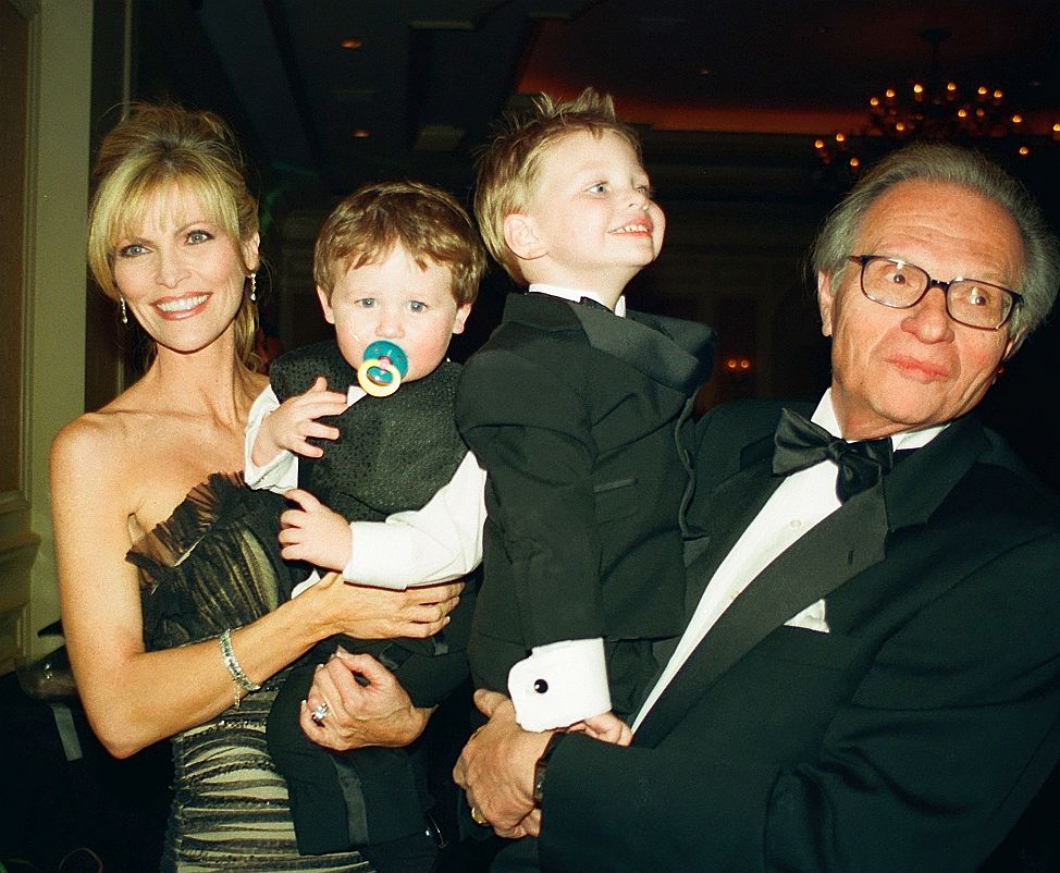 Wash D.C. March 1, 2002 A Larry King Cardiac party